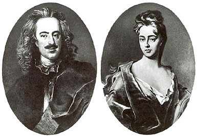 Leopold I, Prince of Anhalt-Dessau (Der Alte Dessauer) and his big love Anna Luise Föhse